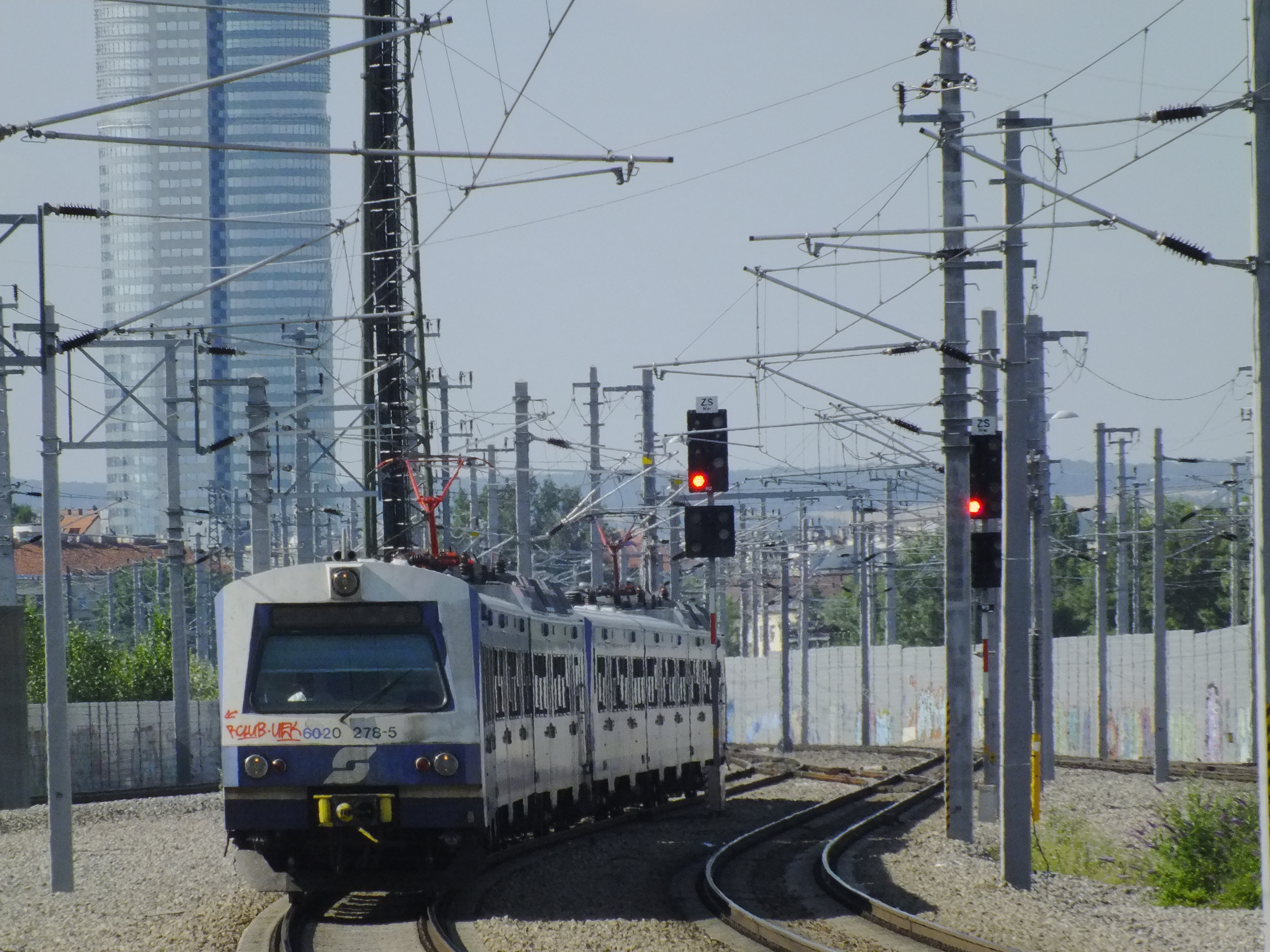 A southbound S1 commuter train arriving at Praternstern station.